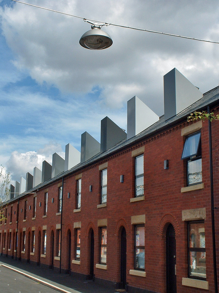 A row of terraced houses in Salford, Greater Manchester, England renovated by gentrification company, Urban Splash.